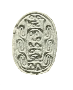 Glazed steatite scarab (type D2) bearing the cartouche of the hyksos ruler Yaqub-Har: - Jjkb Hr Unknown provenience, Second intermediate period. London, British Museum EA 40741.